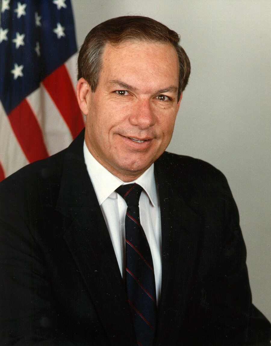 Wayne Allard, United States Senator photo portrait.